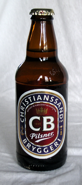 Pils from Christiansands Bryggeri, Norway.